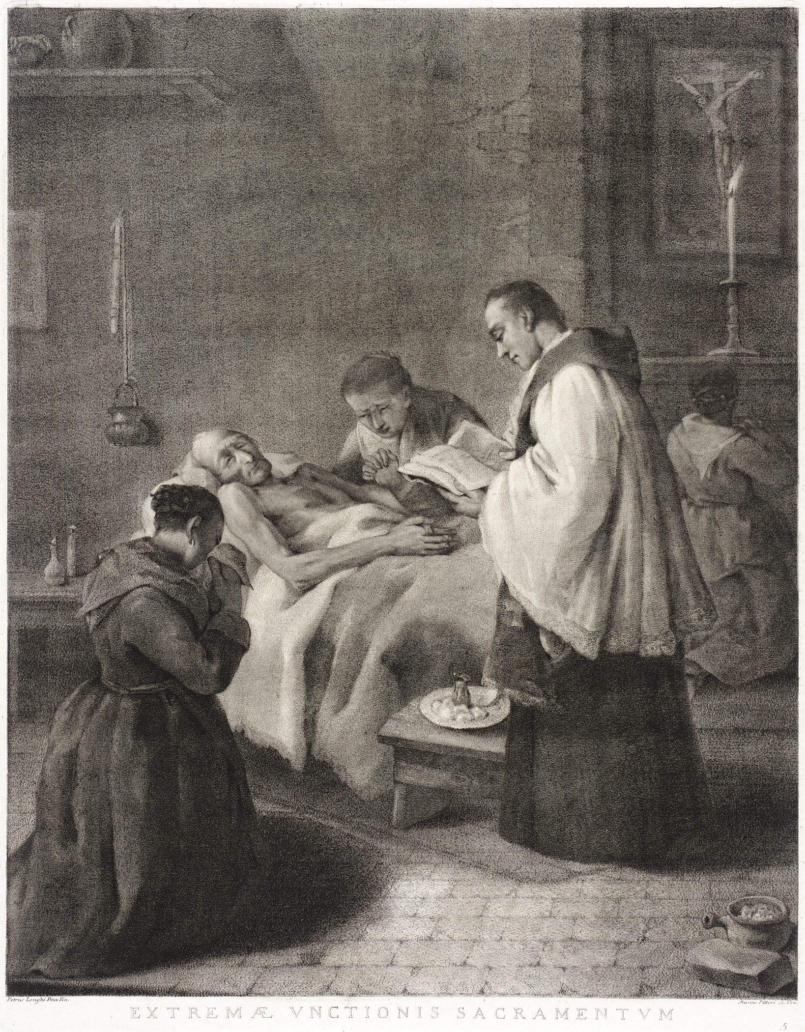 Italy, circa 1755 Series: The Seven Sacraments, plate 5 Prints; etchings Etching 22 3/4 x 17 5/8 in. (57.79 x 44.77 cm) Purchased through the Art Museum Council with funds provided by Dorothy Peck-Flynn in memory of Caroline Liebig (AC1994.171.5) Prints and Drawings